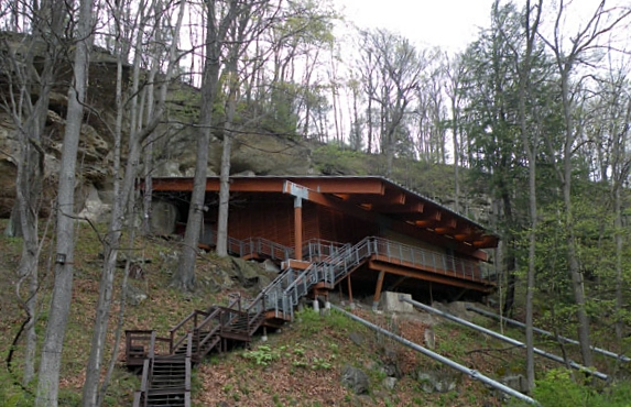 Picture of Meadowcroft Rockshelter located to the west of Avella in Washington County, Pennsylvania, on April 24, 2010. The site is listed on the National Register of Historic Places and is a National Historic Landmark. A sign near the site says the following: "Meadowcroft Rockshelter - a deeply stratified archaeological site its deposits span nearly 16,000 years. Discovered in 1973 by Albert Miller and excavated by the University of Pittsburgh archaeologists, Meadowcroft revealed North America's earliest known evidence of human presence and the New World's longest sequence of human occupation. All of eastern North America's major cultural stages appear in its remarkably complete archaeological record. Pennsylvania Historical and Museum Commission 1999". [1] Another sign near the site says the following: "The Pennsylvania Historical and Museum Commission declares Meadowcroft Rockshelter a Commonwealth Treasure for all to protect and preserve as a unique archaeological discovery or our earliest history. 1999".